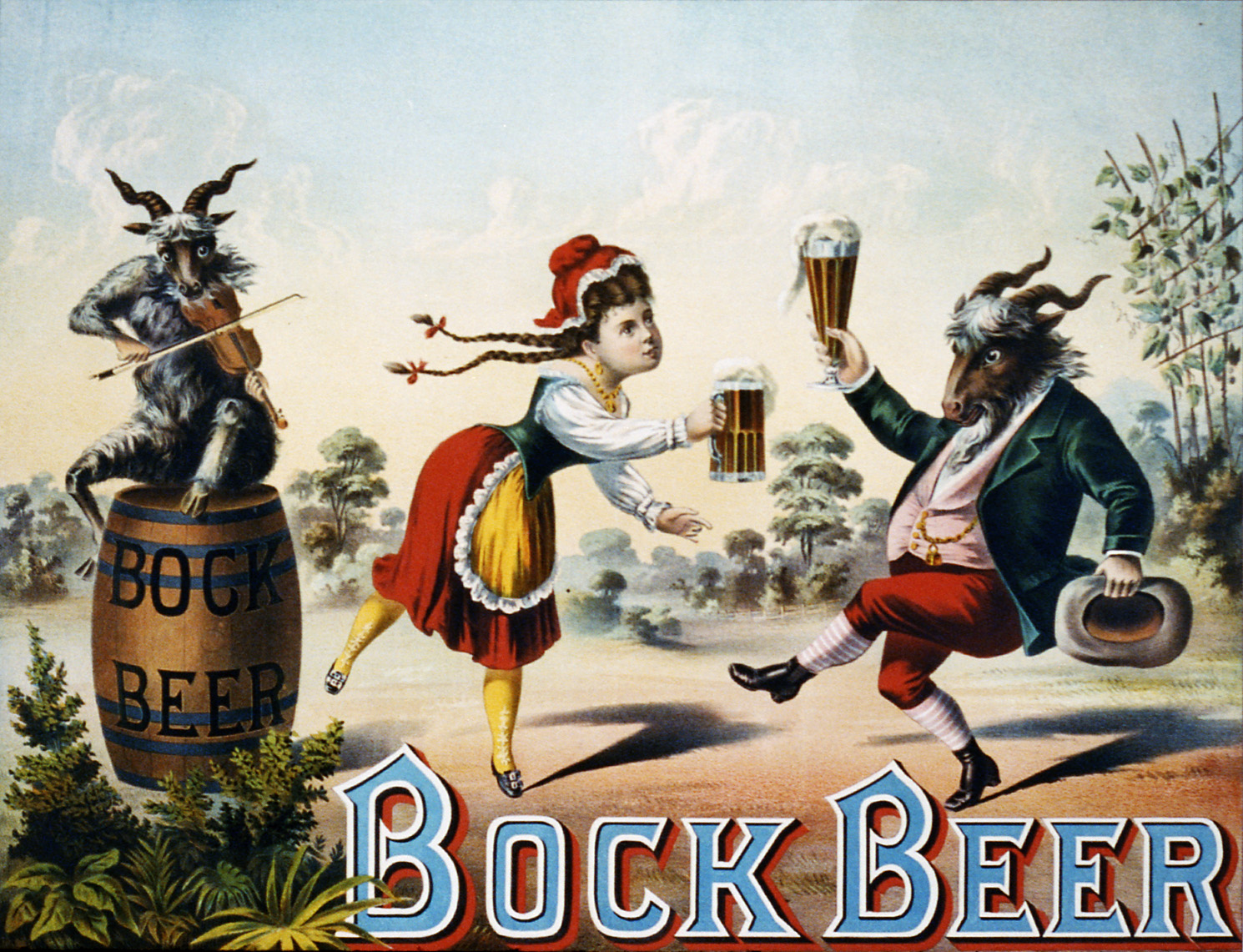 Print showing a woman, possibly a barmaid, holding a stein of Bock beer, a goat playing a fiddle while sitting on a barrel labeled "Bock Beer" and a goat dressed as a man holding a glass of Bock beer while dancing. Advertising by the , registered 24 January 1882.